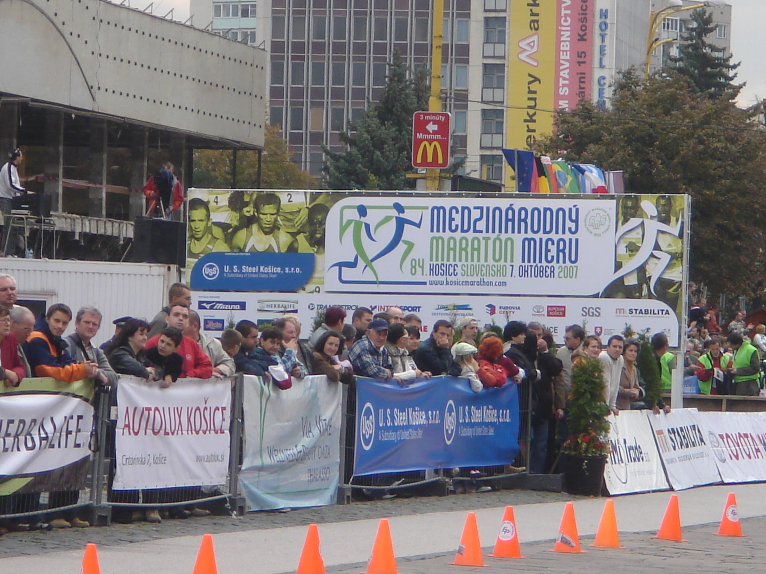 84th International Peace Marathon in Kosice, Slovakia